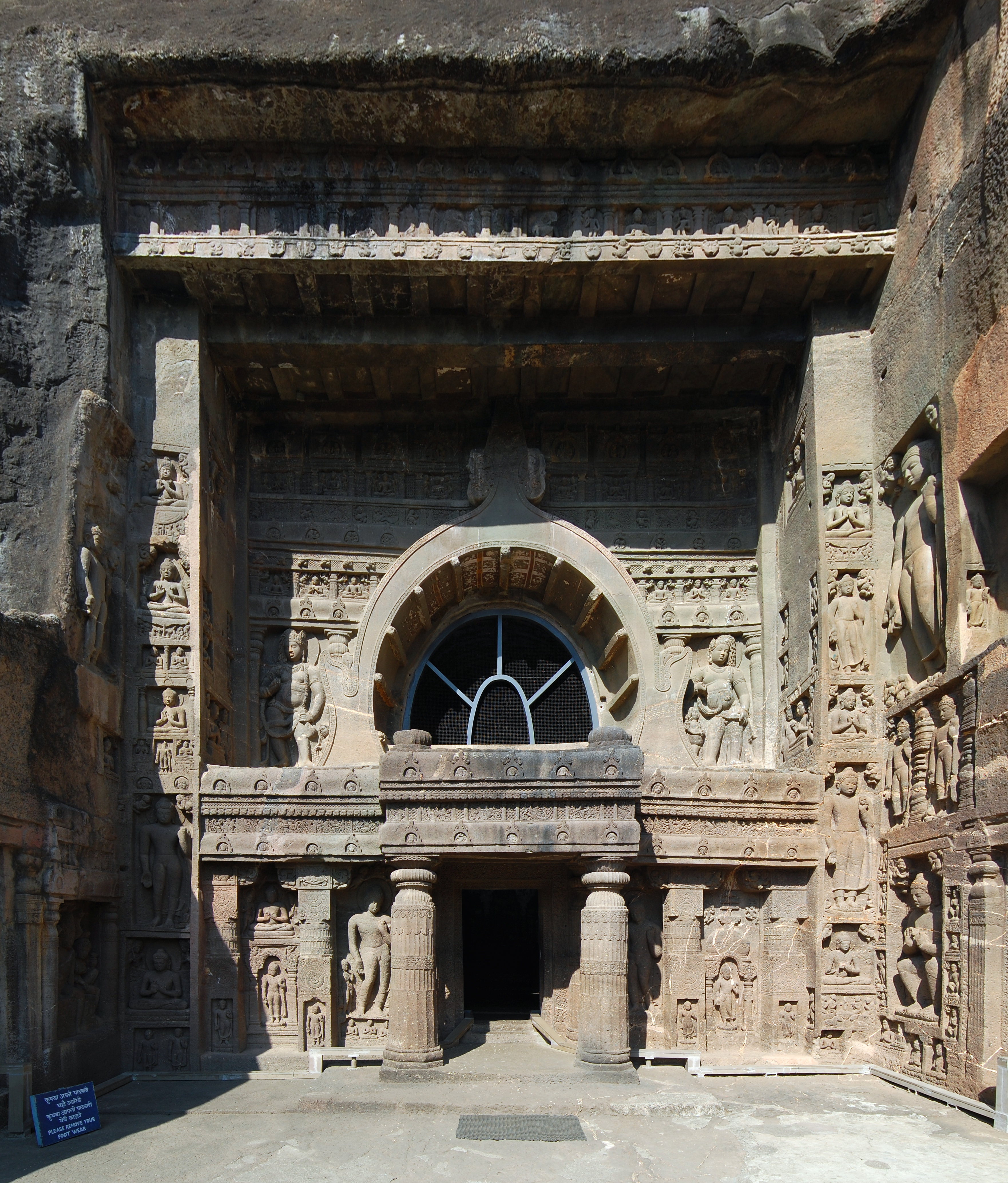 Entrance to cave no. 19 in Ajanta Caves complex, India.